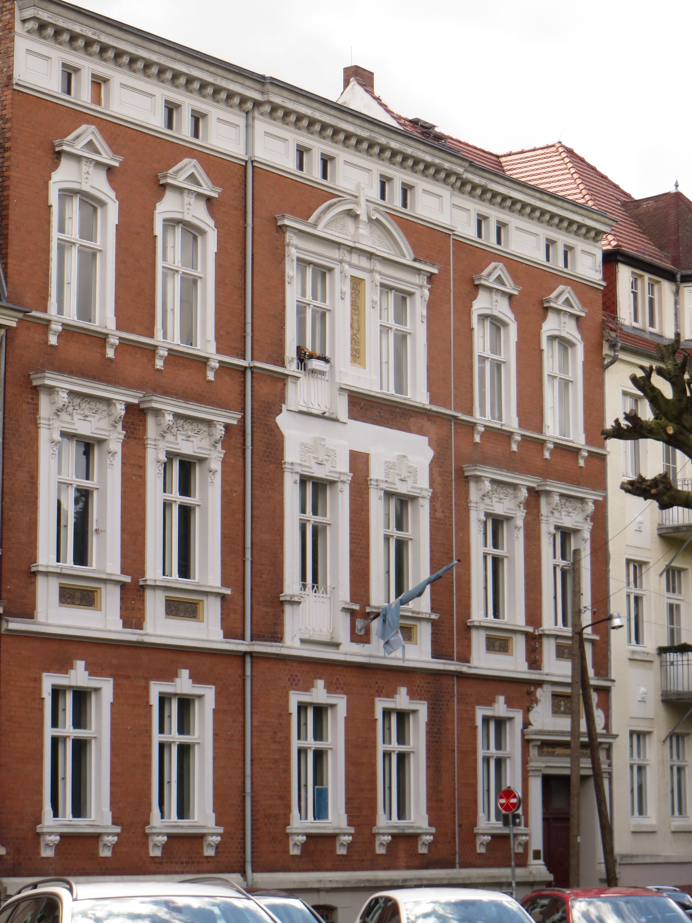 Corpshaus Pomerania Greifswald